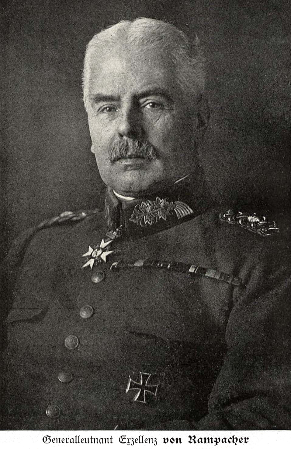 lieutenant general Hermann von Rampacher (WW1)